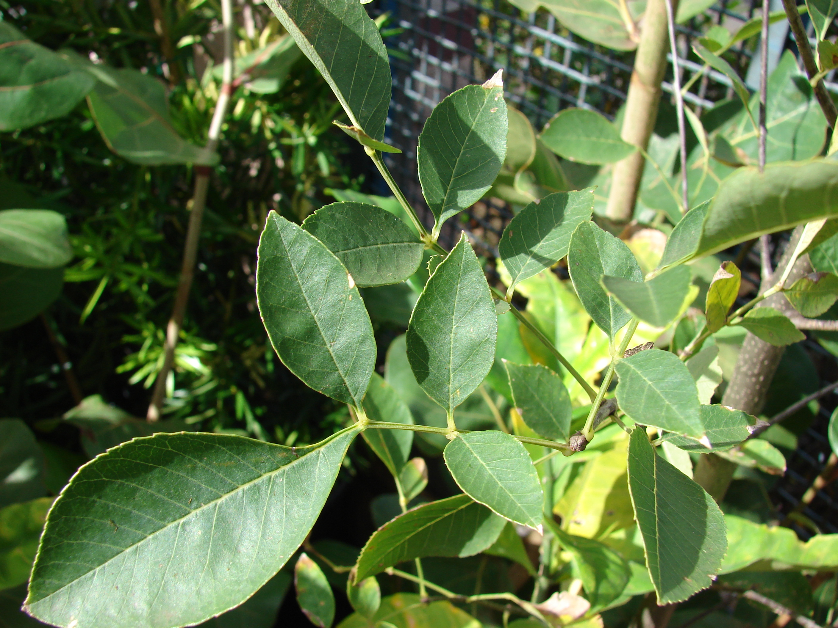 Fraxinus velutina (leaves). Location: Maui, Lowes Garden Center Kahului